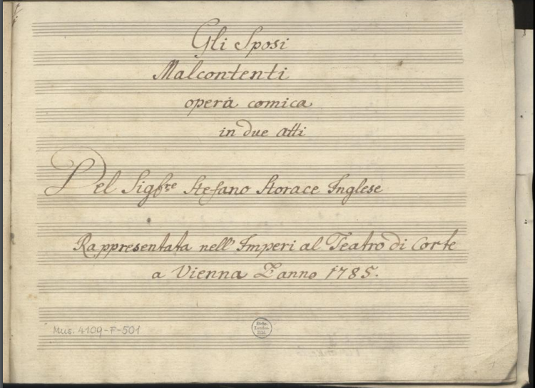 Stephen Storace's Gli sposi malcontenti (1785, Vienna) Score is in Dresden, Musik Dresdner Opernarchiv digital, Mus.4109-F-501